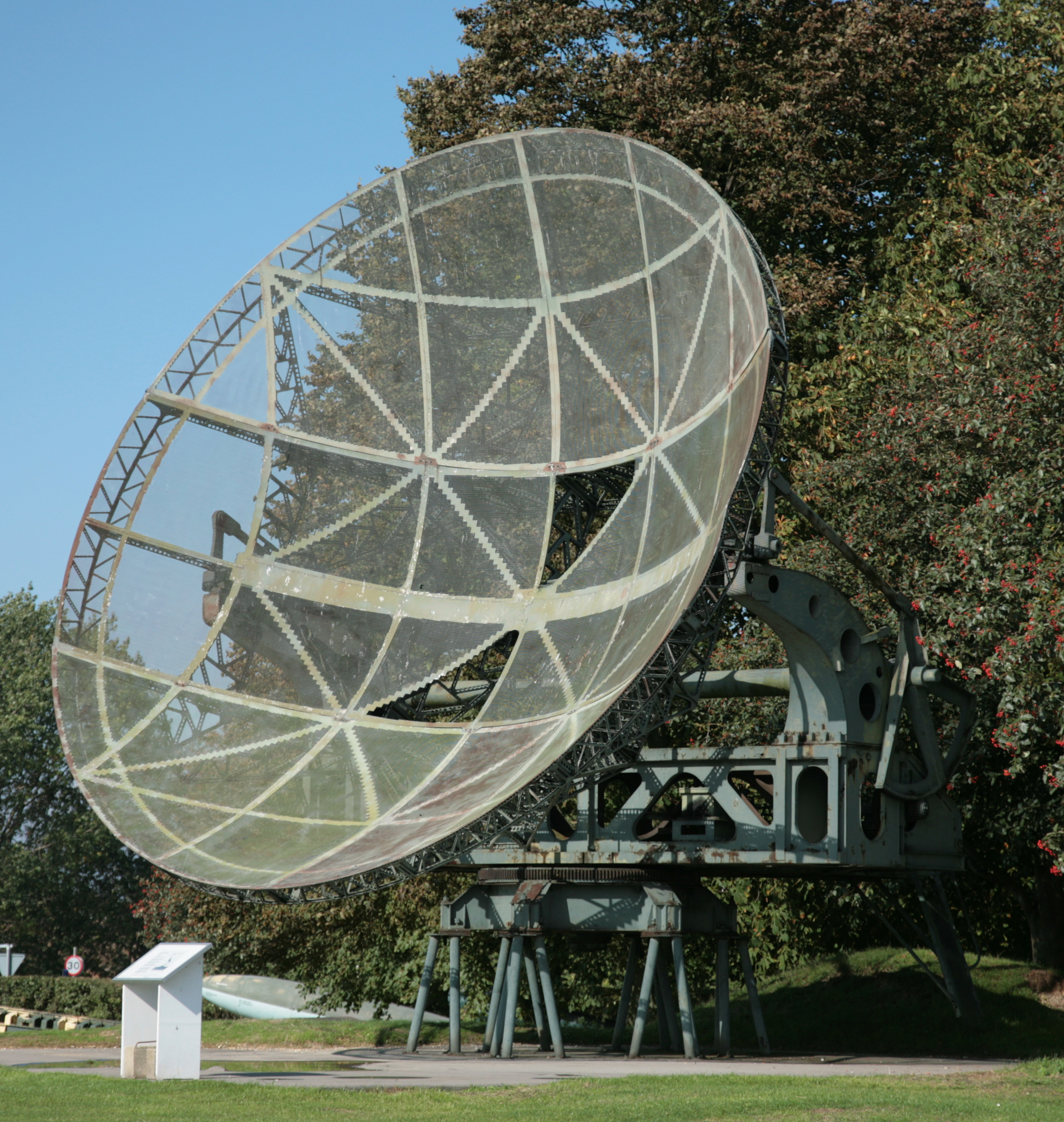 A Giant Wurzburg radar at RAF Duxford in the UK.